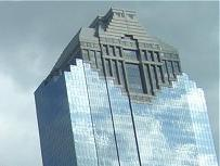 Image of Heritage Plaza, a modern skyscraper in Houston, Texas. Taken from :Image:Houston Texas CBD.jpg to highlight architecture of Heritage Plaza. Original author was User:Spacecaptain.